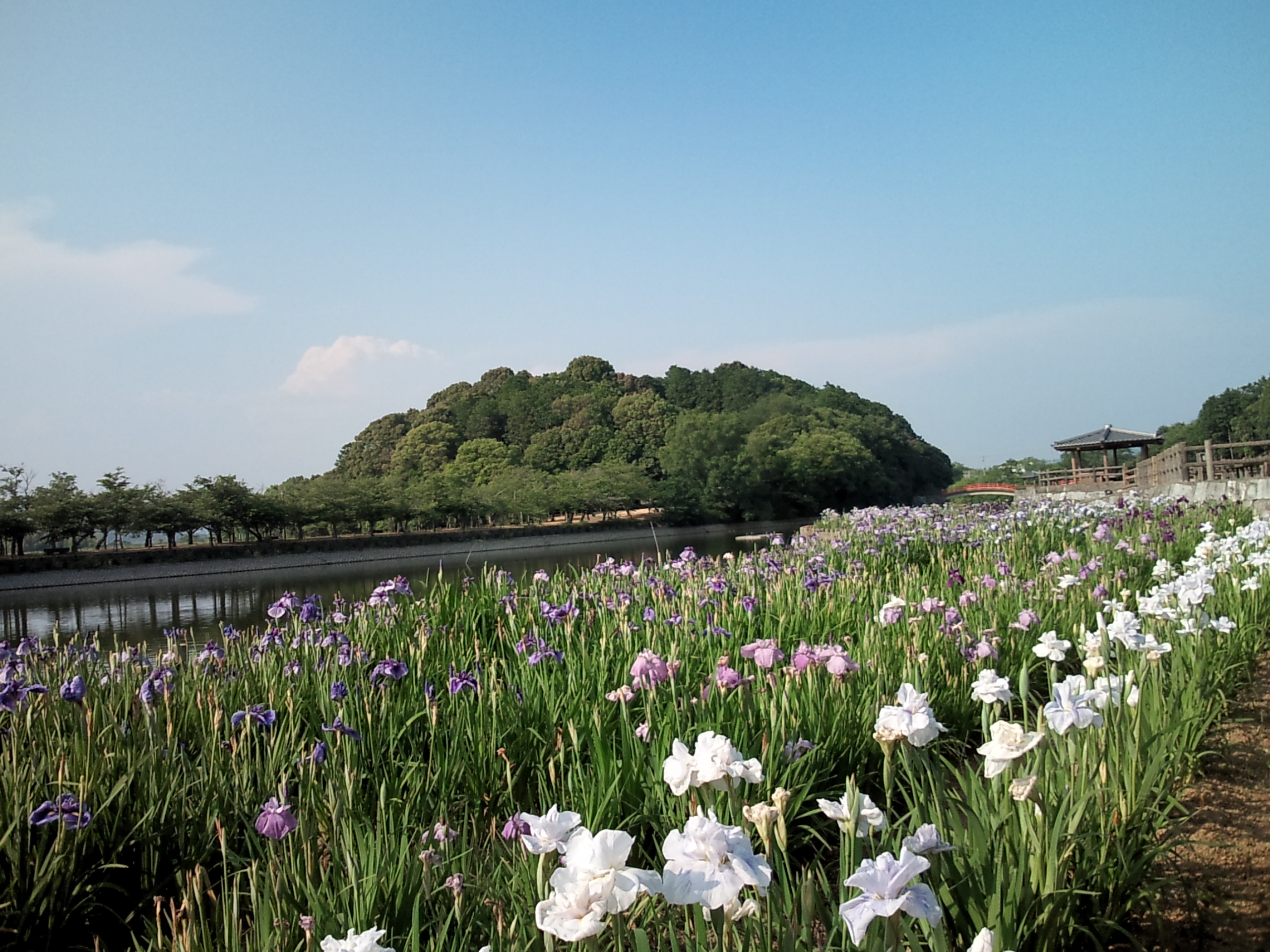 Iris in Kikaku Park,Sanuki-City,Kagawa Pref.